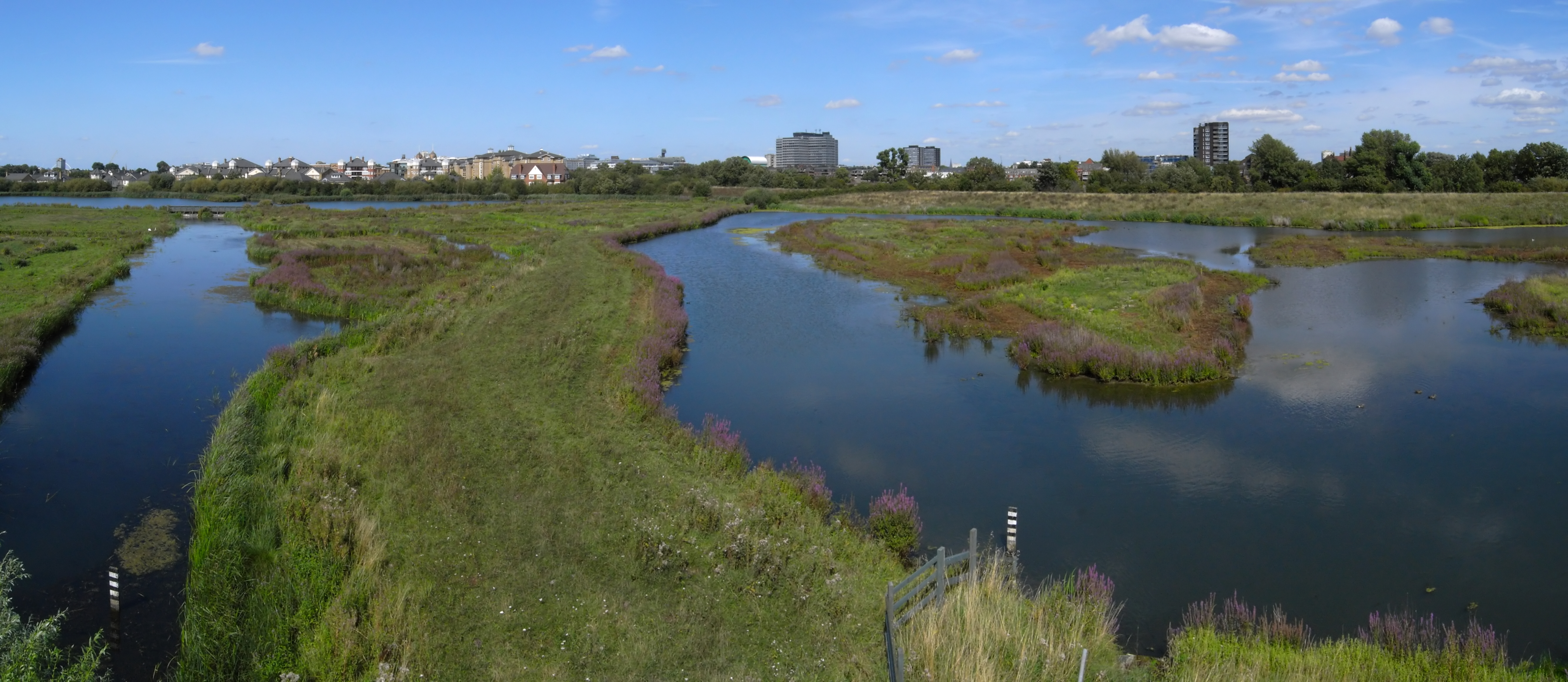 Lagoons at the London Wetland Centre, from the Peacock Tower hide.